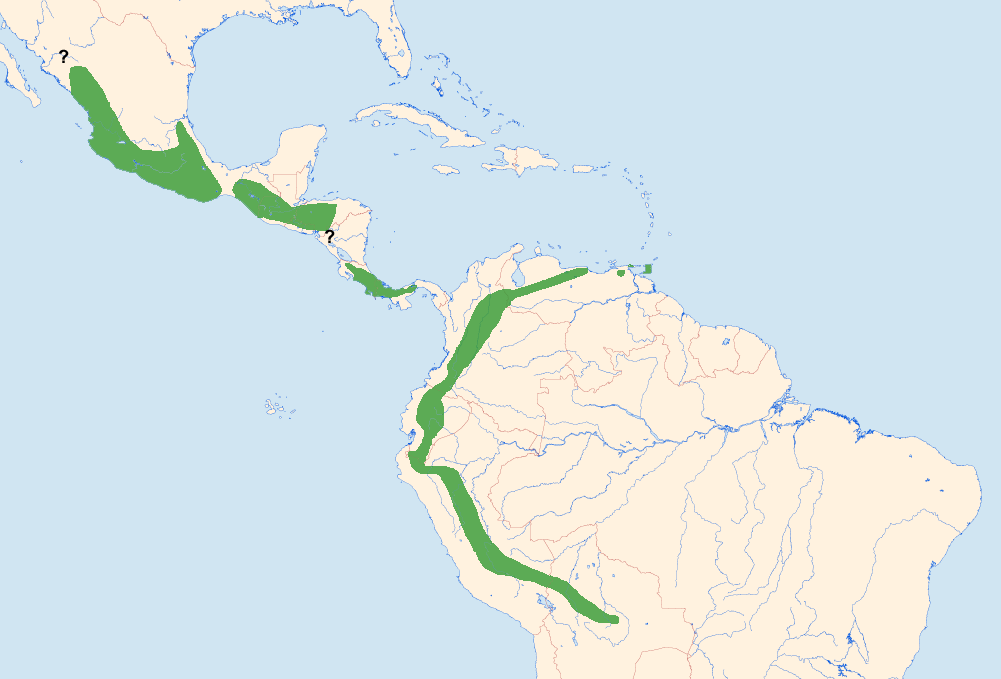 Distribution of Chestnut-collared swift (Cypseloides rutilus). Data Sources: Howell/Webb: A Guide to the Birds of Mexico and Northern Central America. (Mexiko, Guatemala, El Salvador, Honduras); InfoNatura (by NatureServe in collaboration with Robert Ridgely, James Zook, The Nature Conservancy - Migratory Bird Program, Conservation International - CABS, World Wildlife Fund - US, and Environment Canada - WILDSPACE), see preparation of Cornell Lab of Ornithology) (Costa Rica, Panama, South Amrica)